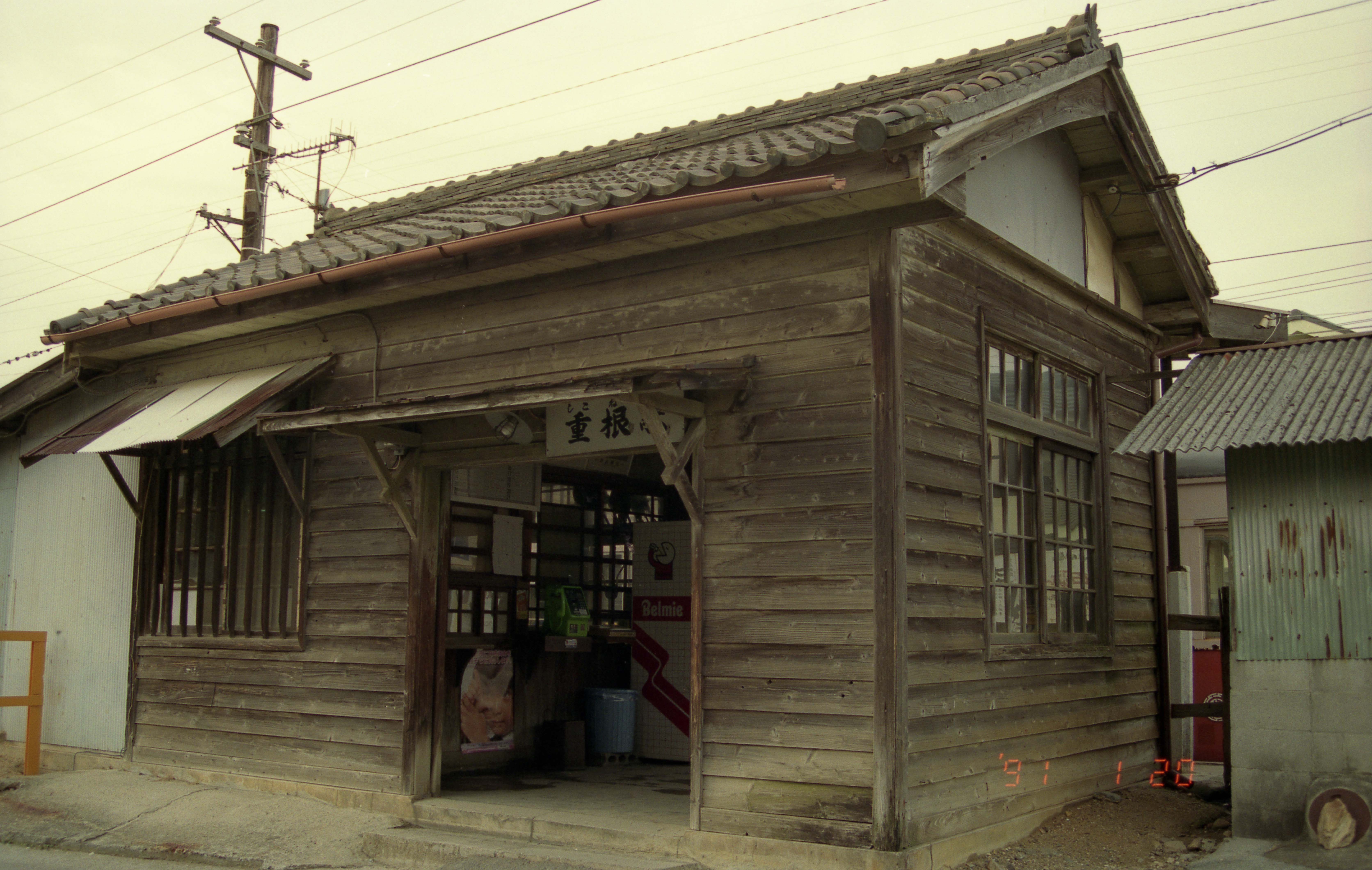 The building of Shikone Station,Nokami Electric Railway(before abolished)